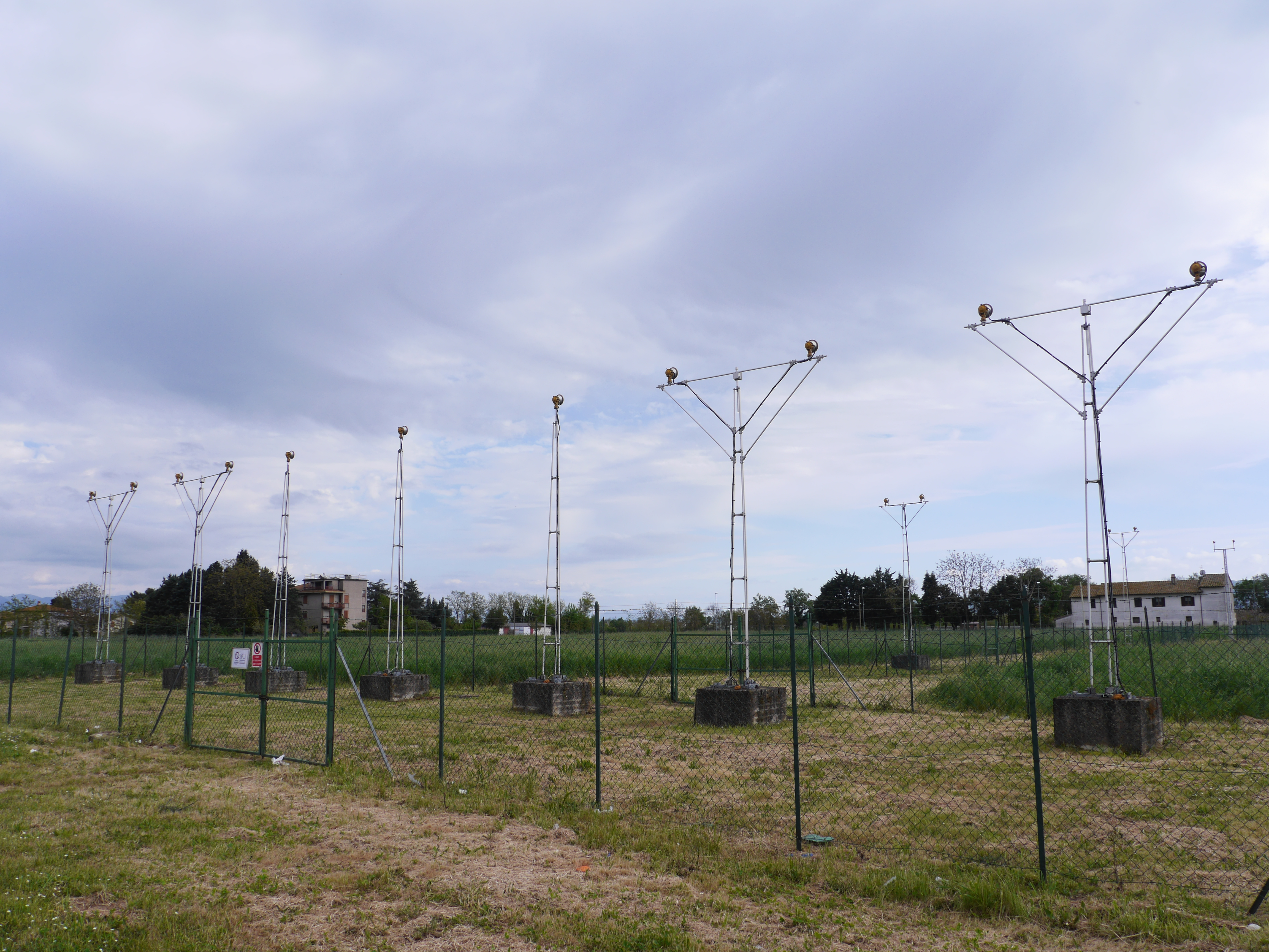 This photo was taken with Panasonic Lumix DMC-GH3 camera, thanks to Panasonic.You can see all photographs in category: Taken with Panasonic Lumix DMC-GH3.